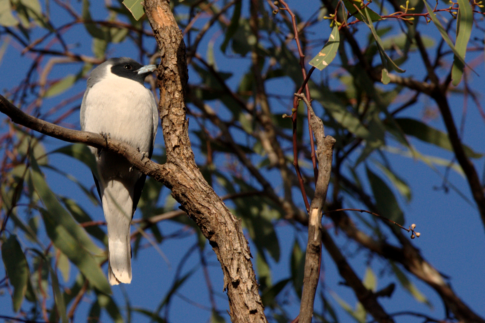 A Masked Woodswallow in Australia.